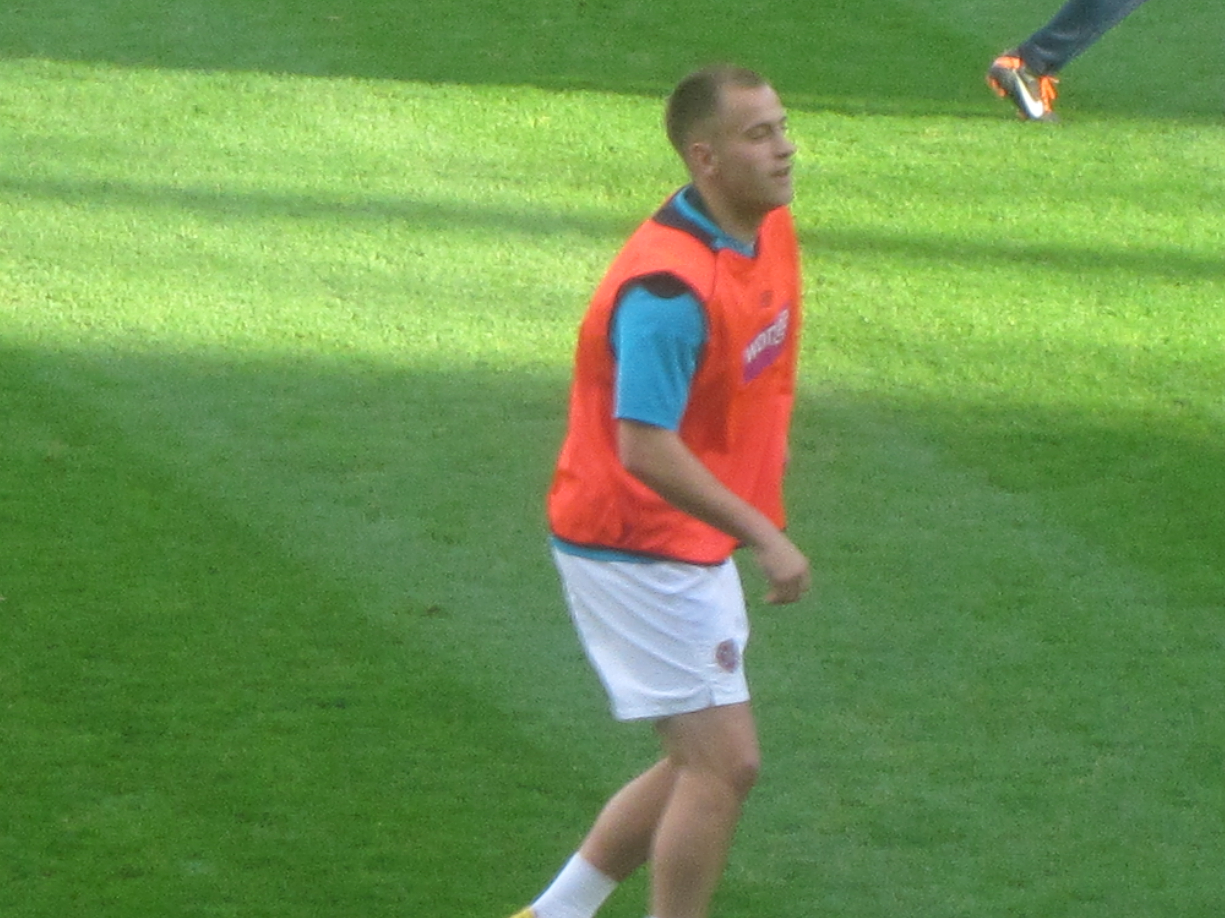 Danny Grainger Hearts v Kilmarnock 29th October 2011